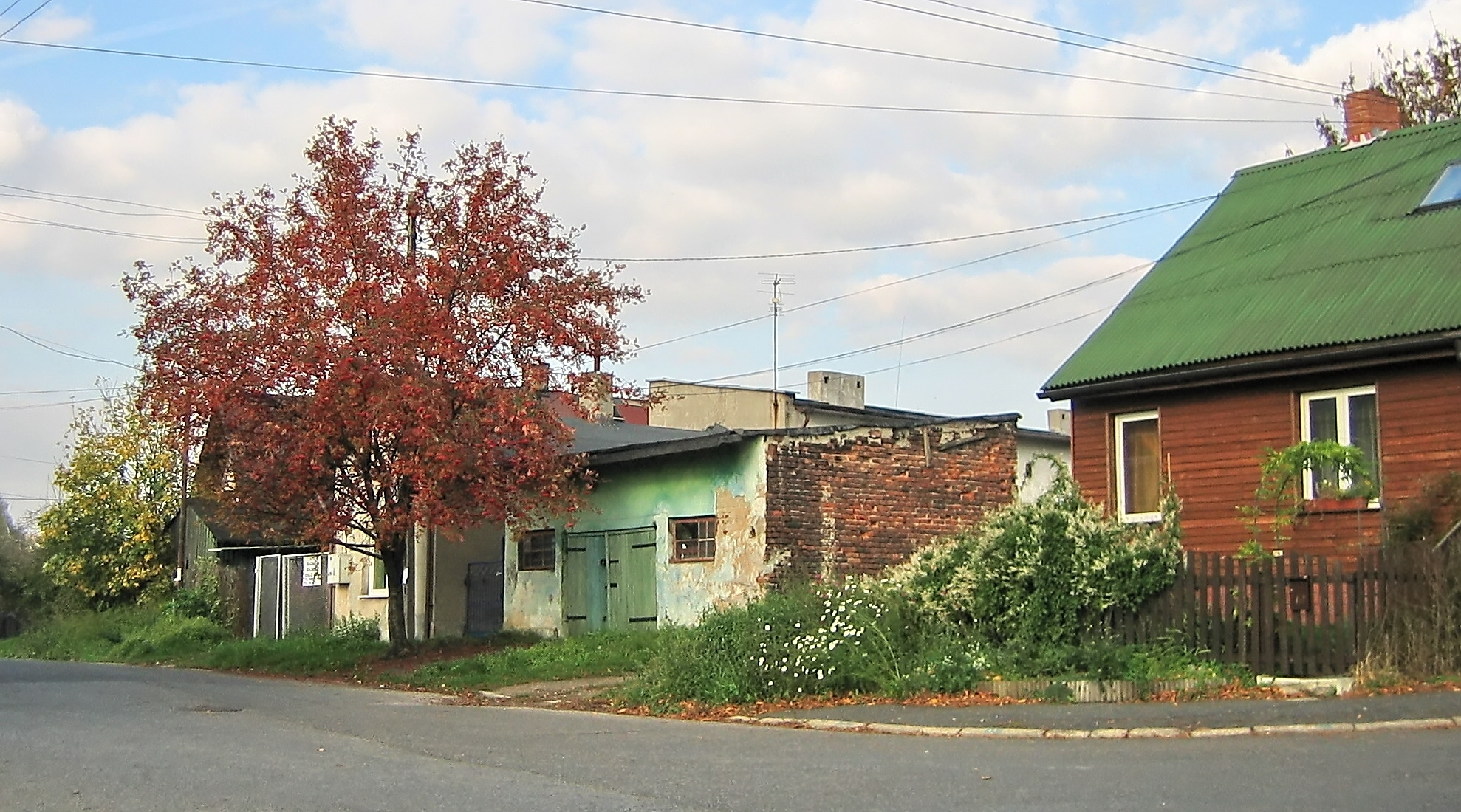 Kościelna street,Gołonóg,Dąbrowa Górnicza